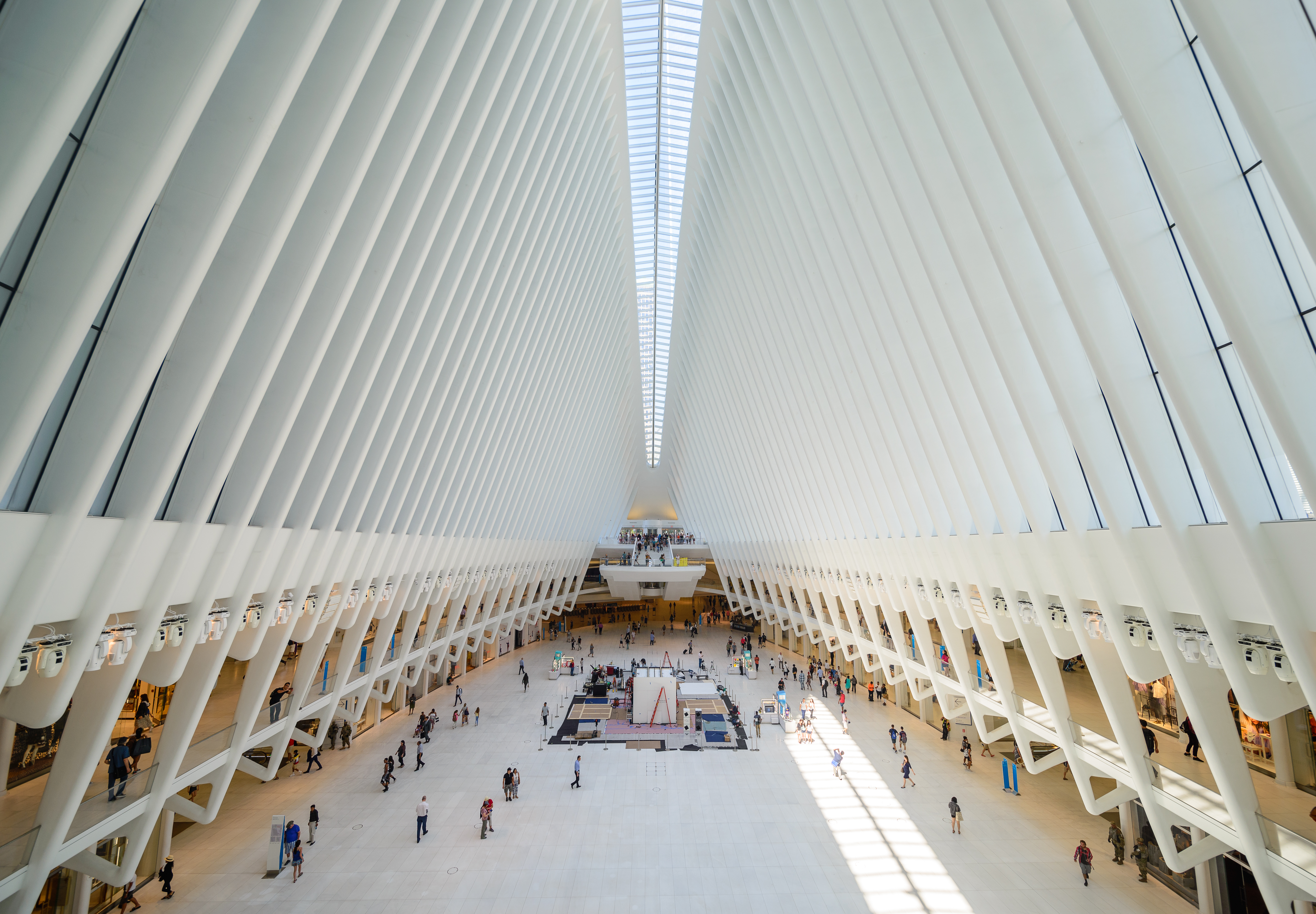 WTC Transportation Hub.